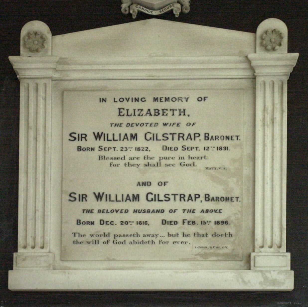 Monument in St Martin's parish church, Fornham St Martin, Suffolk, to Sir William and Lady Elizabeth Gilstrap